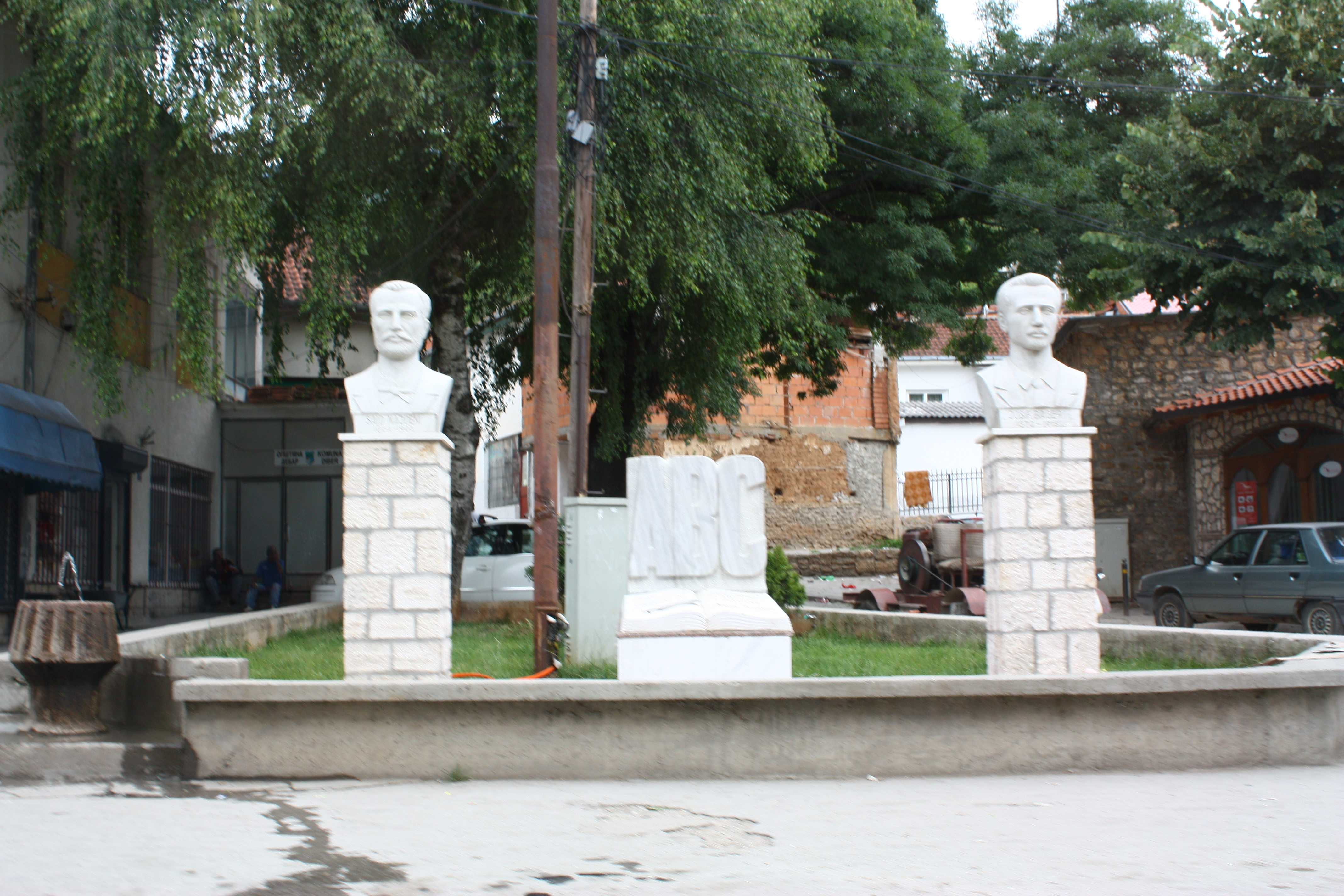 Debar, Macedonia